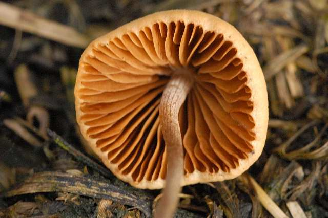 Conocybe spec. from Commanster, Belgian High Ardennes. The determination of the species shown in this picture has been verified.